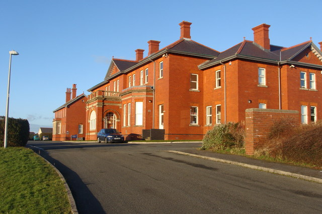 Pembrokeshire Coast National Park Headquarters